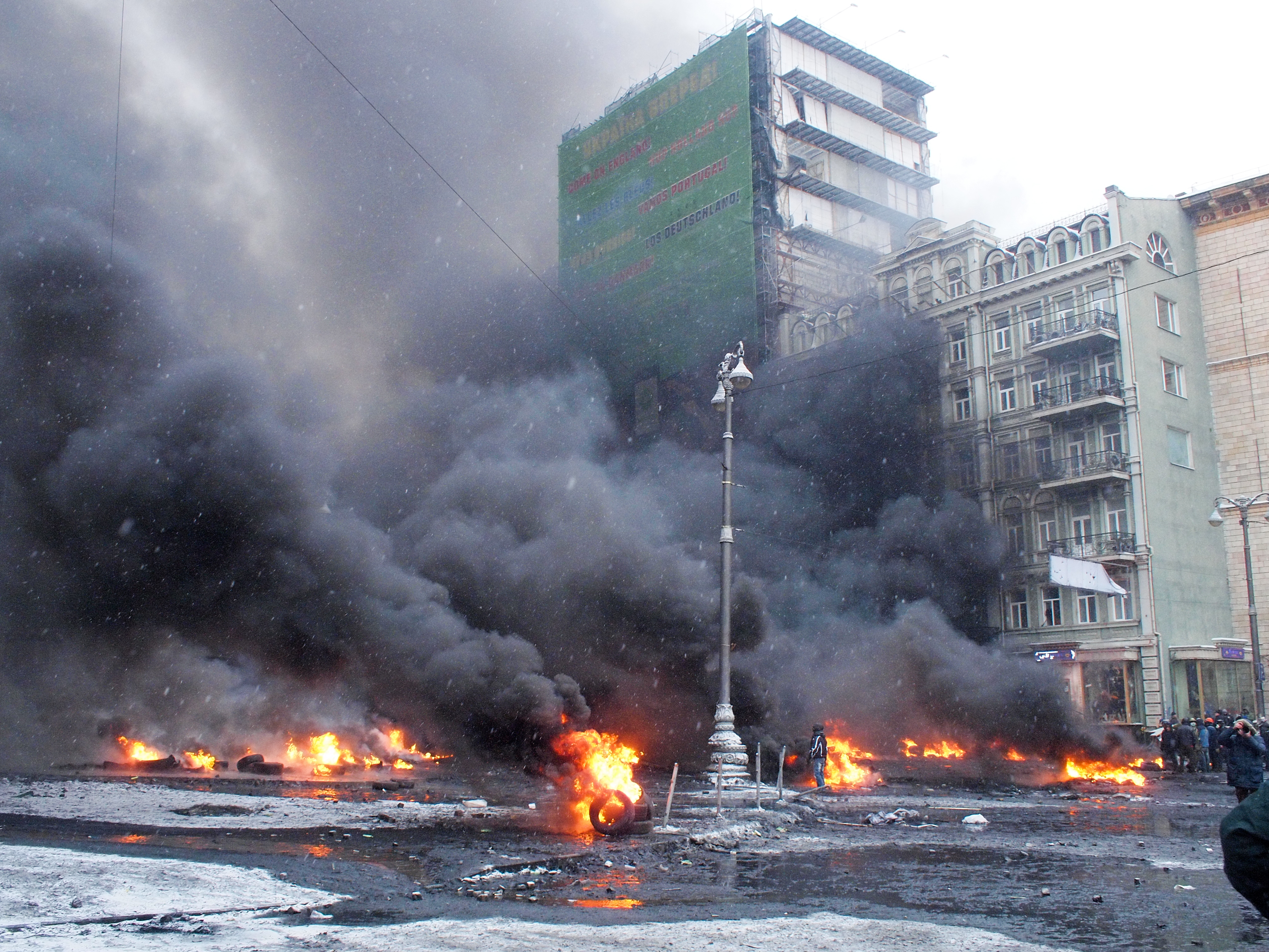 Protests on Hrushevskyi street, Kiev, 22 January 2014